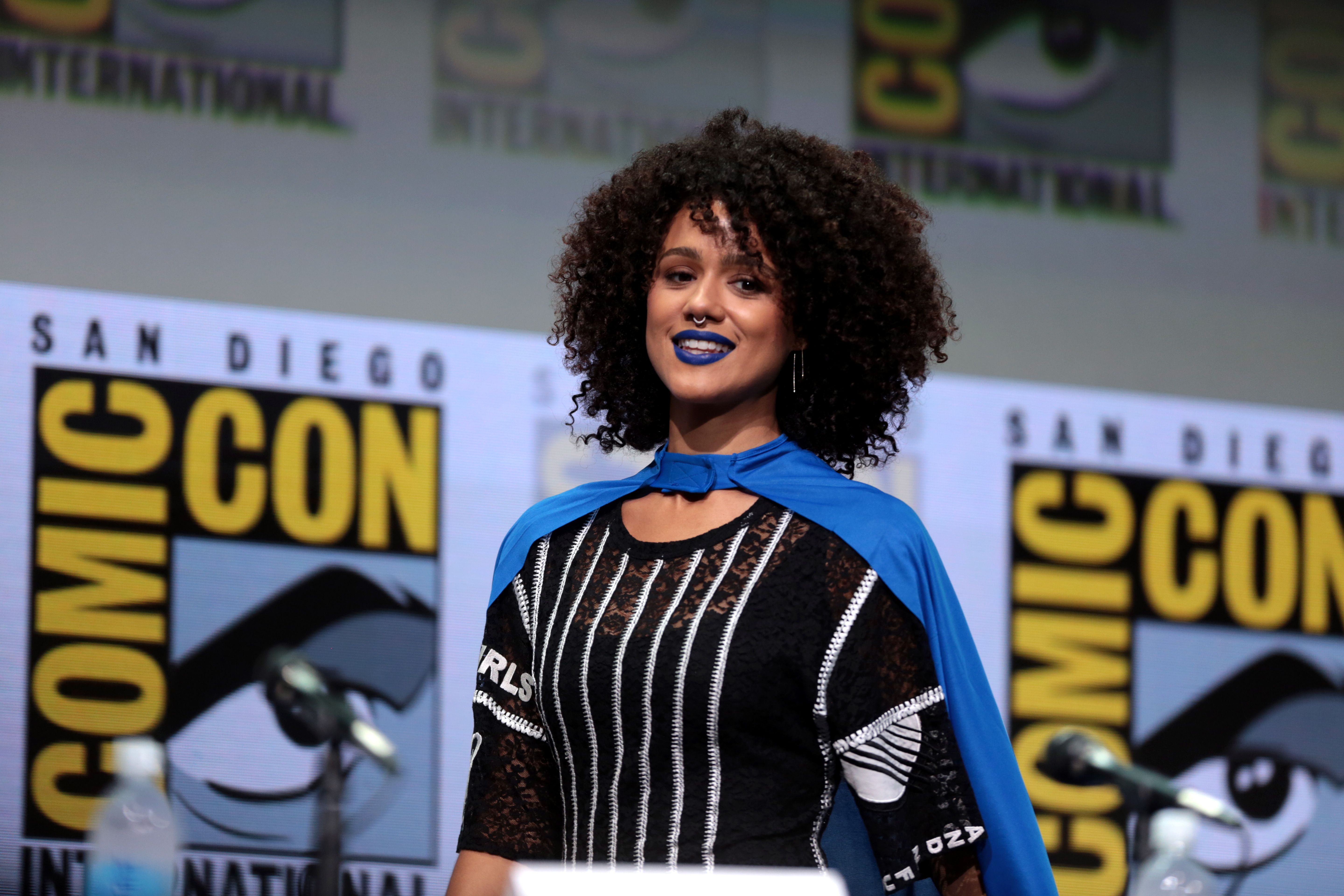 Nathalie Emmanuel speaking at the 2017 San Diego Comic Con International, for "Game of Thrones", at the San Diego Convention Center in San Diego, California.